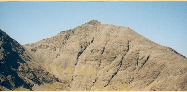 Garbh Bheinn [Garven], Skye. An outlier of Black Cuillin gabbro situated between Blaven and the Red Cuillin, Garbh Bheinn is an exciting little peak with several testing ridges.